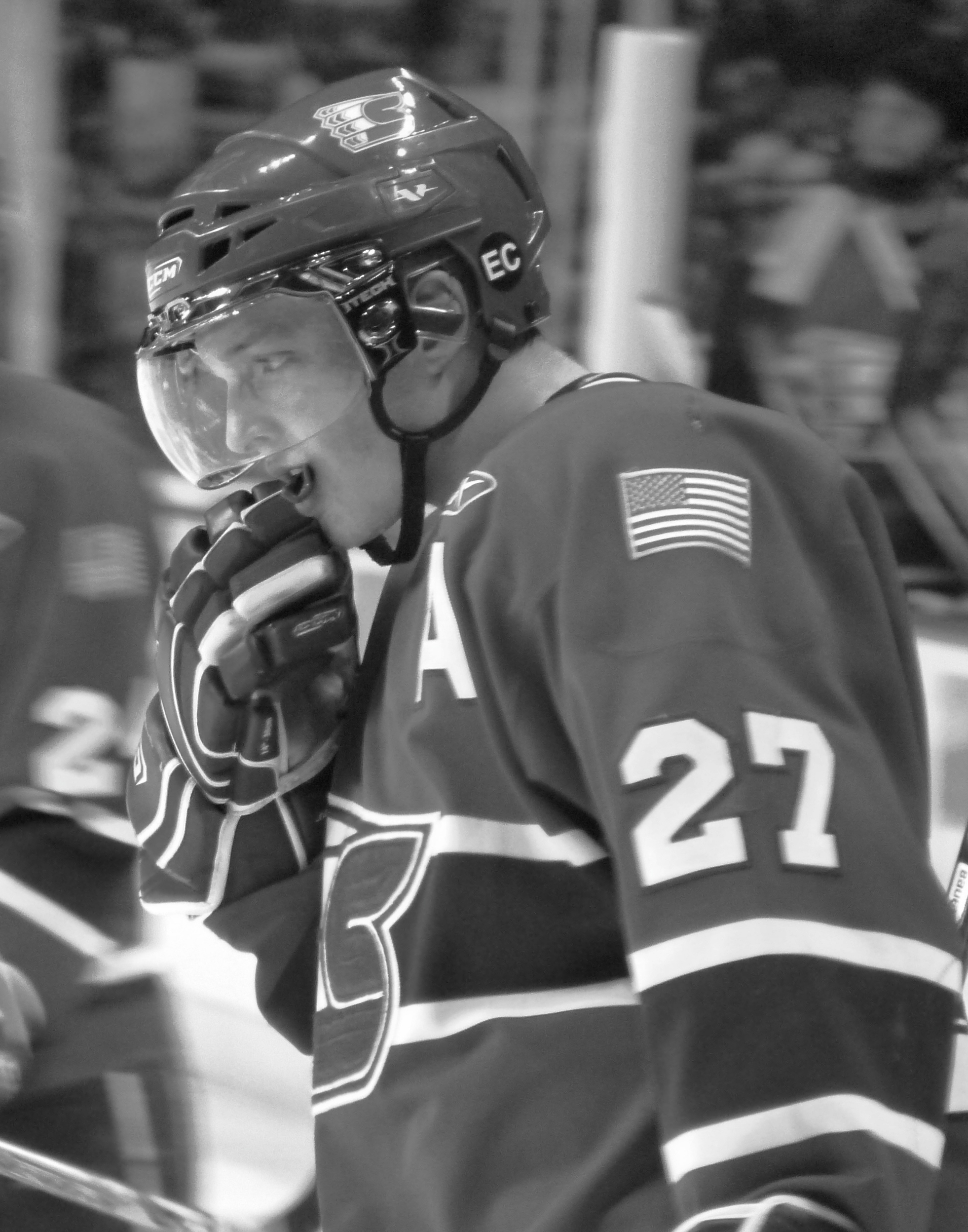 Spokane Chiefs forward Drayson Bowman during Game 7 of the second round of the 2009 WHL playoffs against the Vancouver Giants.